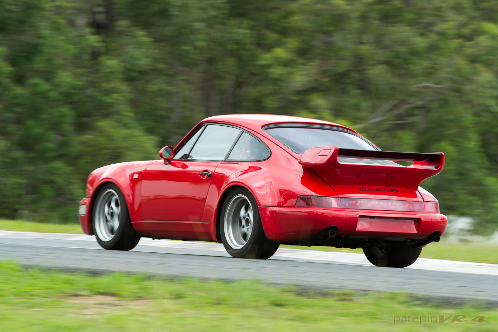 Red 964 Carrera RS with RS 3.8 rear wing.